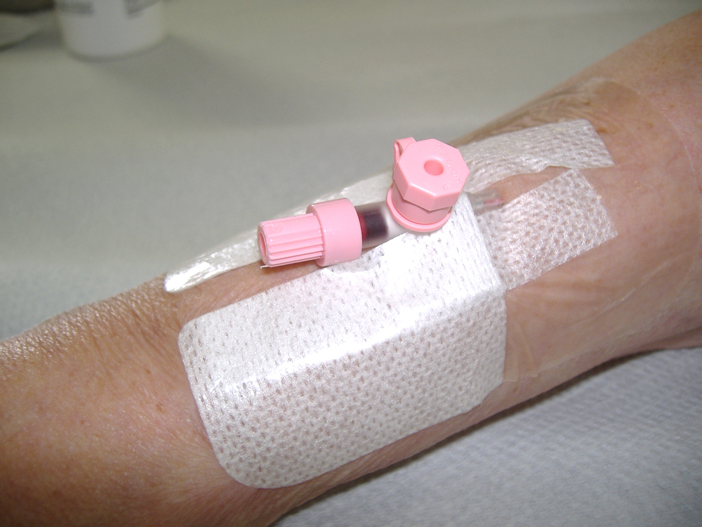 peripheral iv cannula